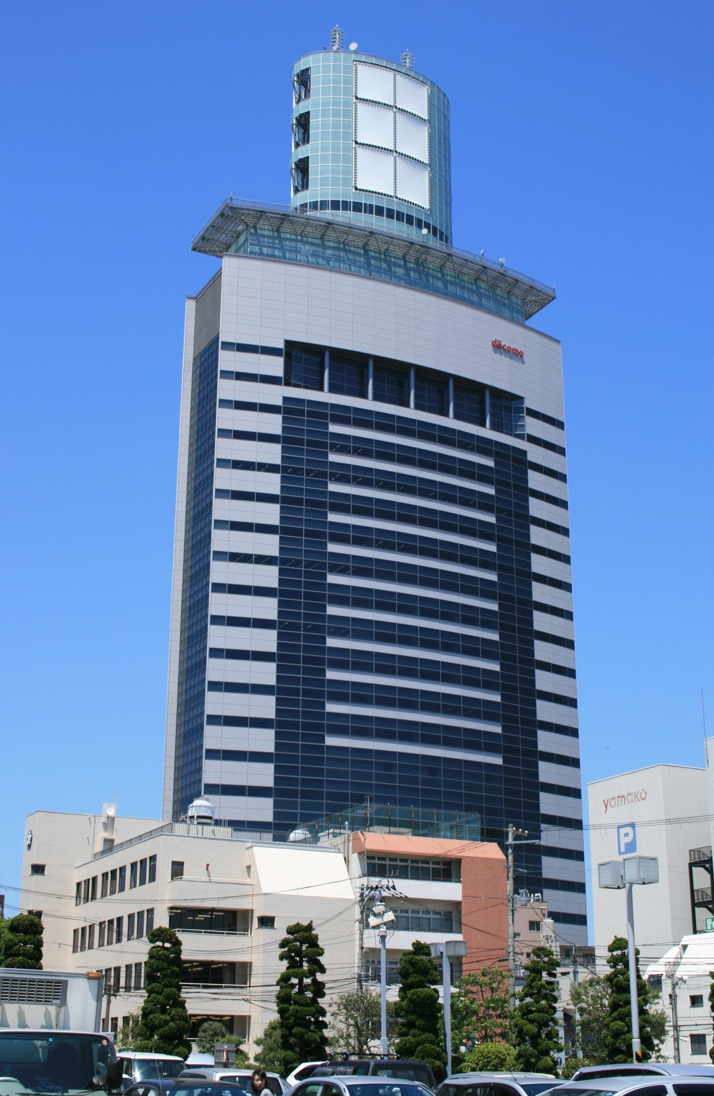 NTT DoCoMo Tōhoku Building in 1-chōme, Kamisugi, Aoba Ward (Aoba-ku), Sendai City (Sendai-shi), Miyagi Prefecture (Miyagi-ken), Japan. The height to top floor is 108.0m (354ft). The height including antenna is 150.0m (492ft), and it is third tallest building in Sendai City after SENDAI TRUST TOWER (180.0m (591m)), Sumitomo Life Sendai Central Building (SS30, 172.0m (564ft)). Taken from south-southwest.